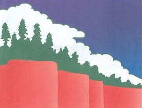 Flag of Paradise, California